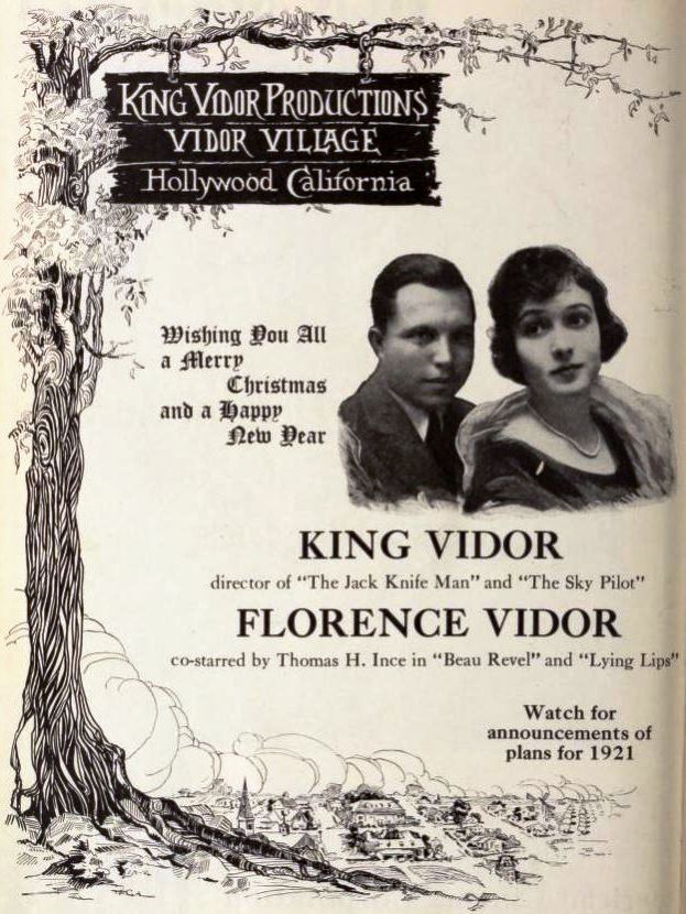 Holiday and New Year's greetings advertisement from King Vidor and Florence Vidor, on page 58 of the December 25, 1920 Exhibitors Herald.